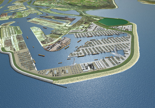 Future look of Maasvlakte 2 project of Mainport Rotterdam.